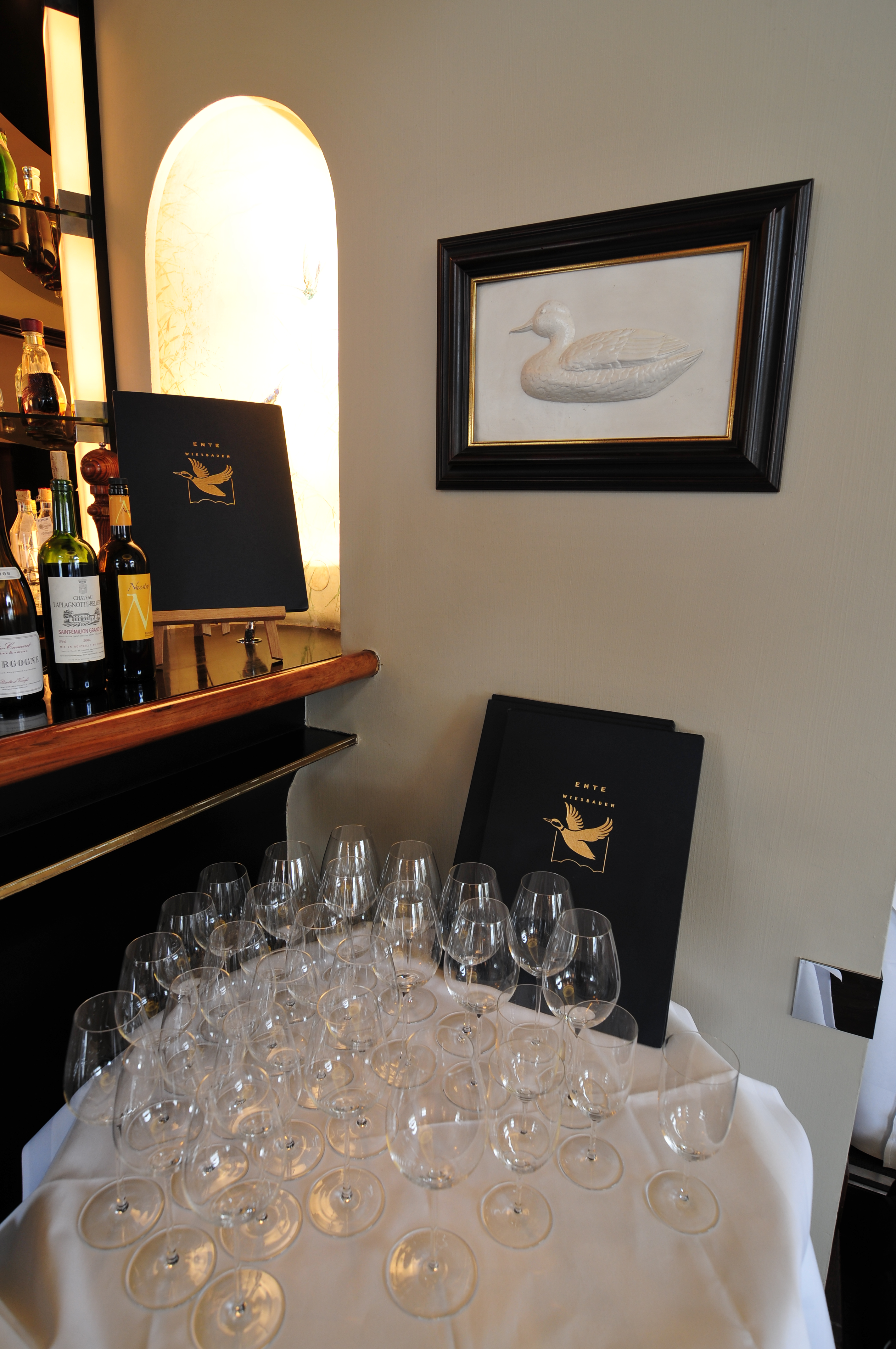 Wiesbaden, Germany, Hotel Nassauer Hof Wikipedia im Landtag – Hessen 26.–28. Februar 2013 in Wiesbaden Fragen zur Nachnutzung Wenn Sie Fragen zur Nachnutzung dieses Bildes haben, können Sie sich jederzeit gern an wenden